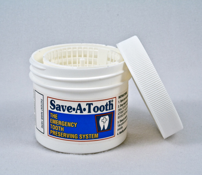 A photo of the Save-A-Tooth system for saving knocked out teeth.